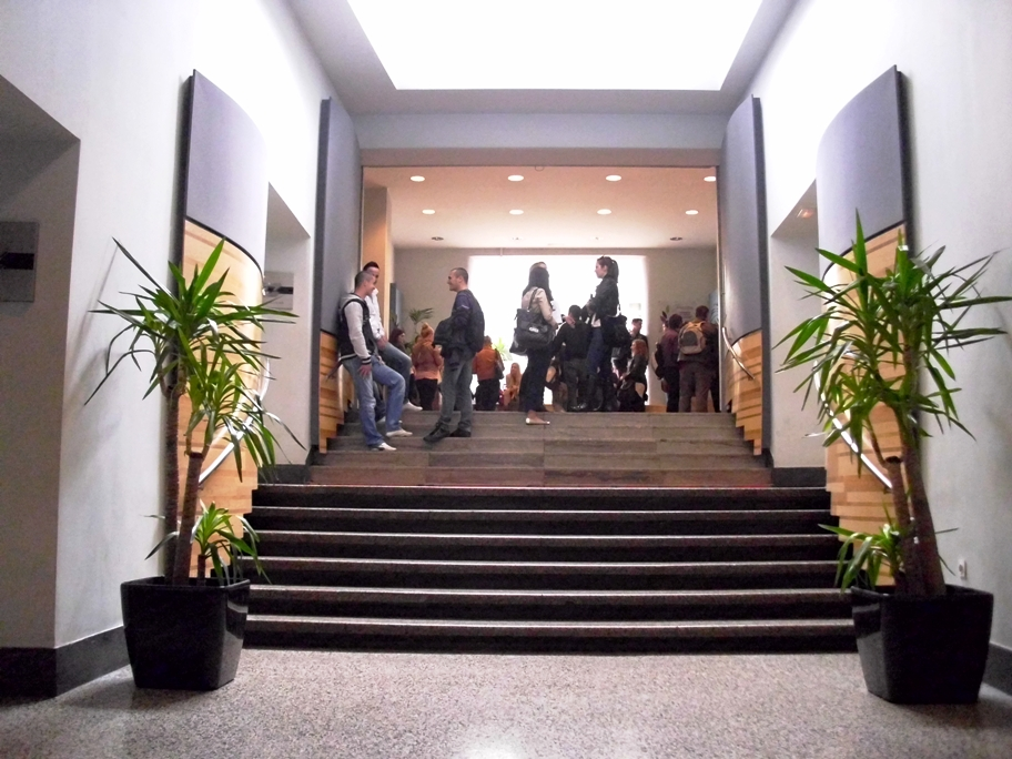 Main pass hall at faculty.